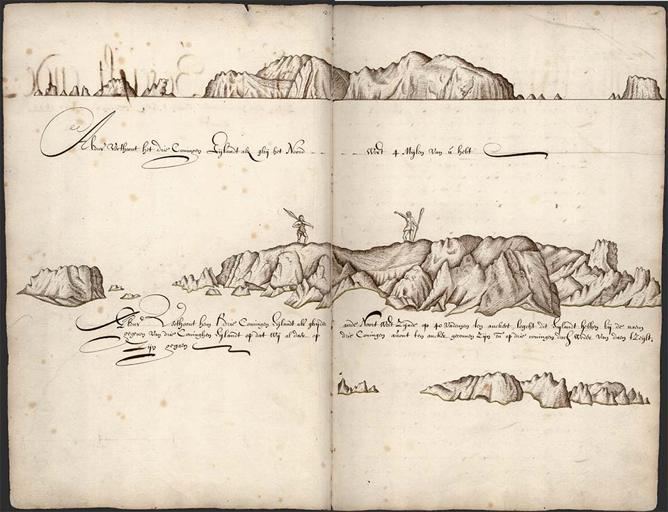 drawing of Three Kings Islands, northwest of North Island, New Zealand